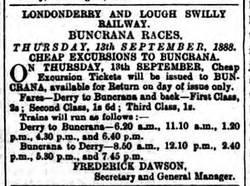 Advert for Londonderry and Lough Swilly Railway to Buncrana